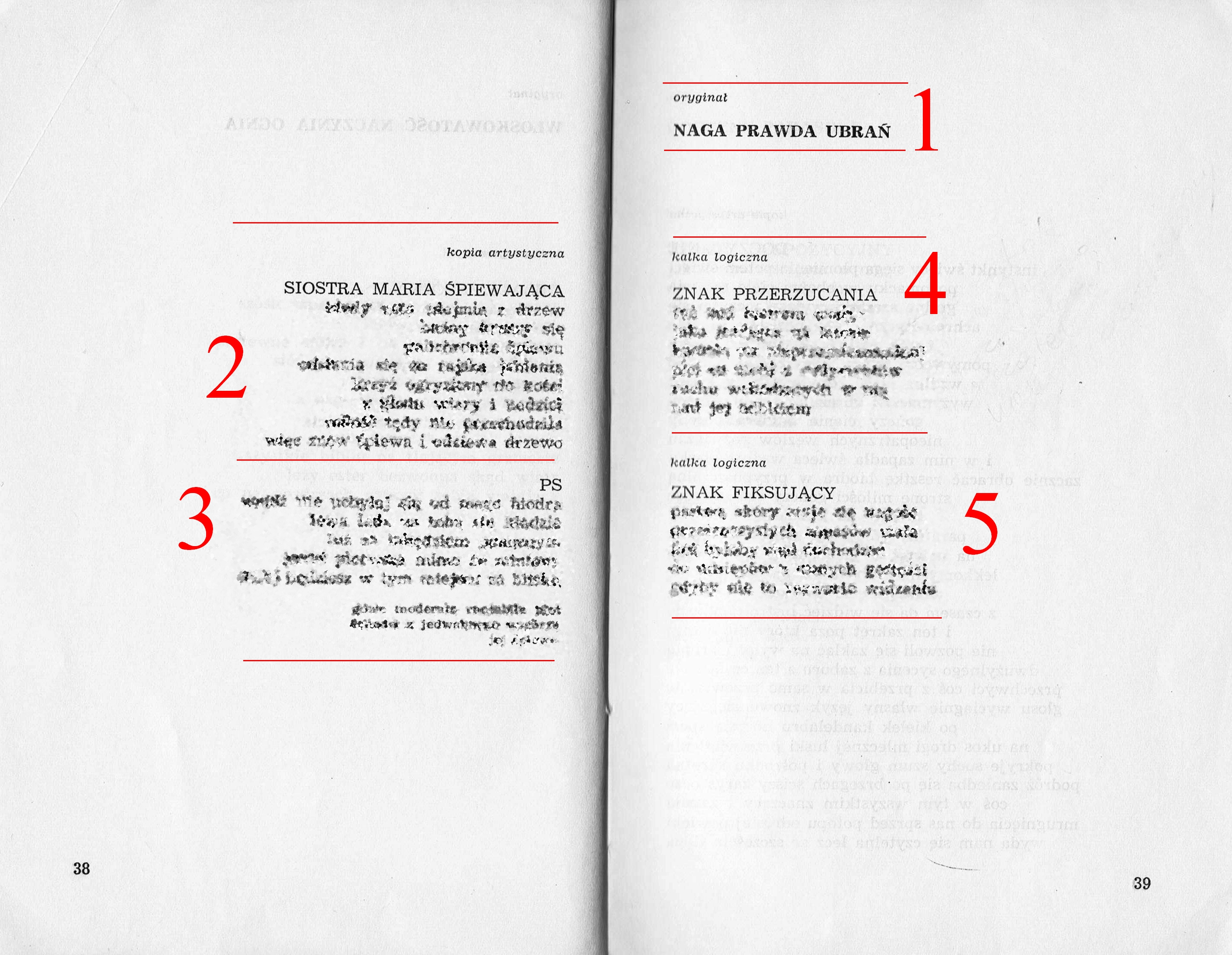 An example of typography in a Tymoteusz Karpowicz's book "Odwrócone światło" (Back-to-Front Light). Names of parts created by poet: 1. original, 2. artistic copy, 3. PS [of an artistic copy], 4. logical copy, 4 [next] logical copy.